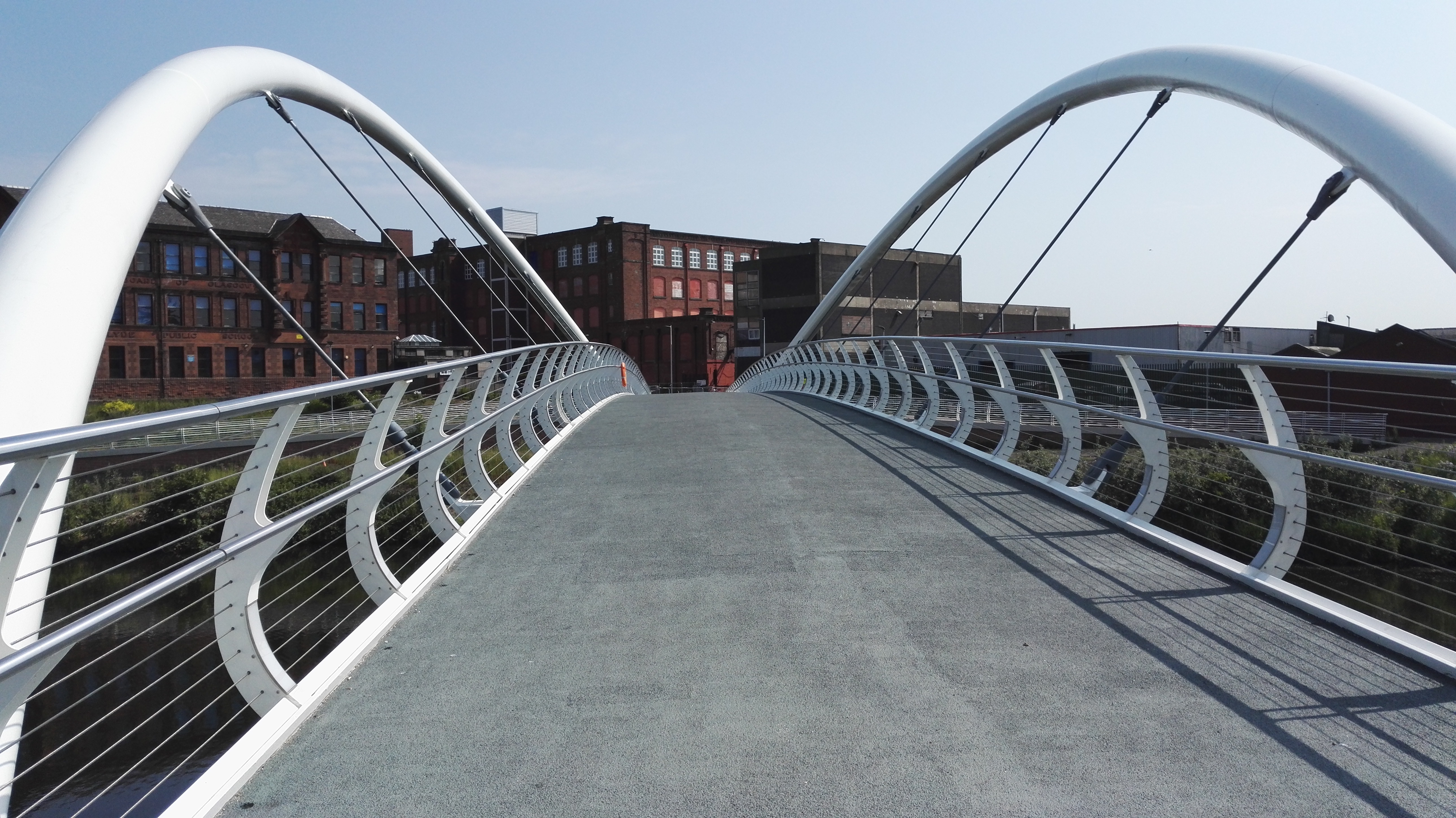 On the Shawfield smartbridge looking east towards the Glasgow (Dalmarnock) side